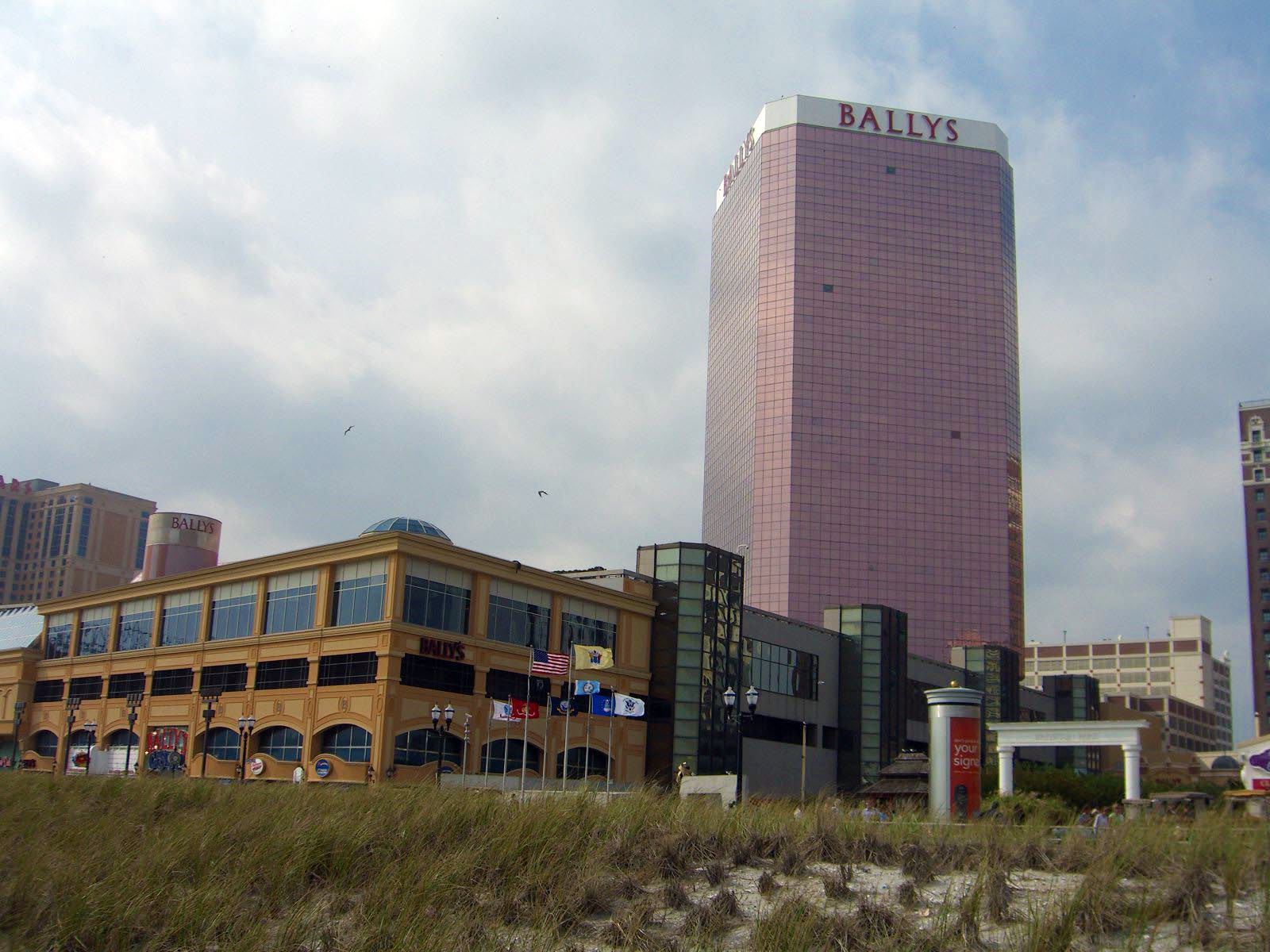 Bally's Casino, as seen in the distance from the Atlantic City beach.